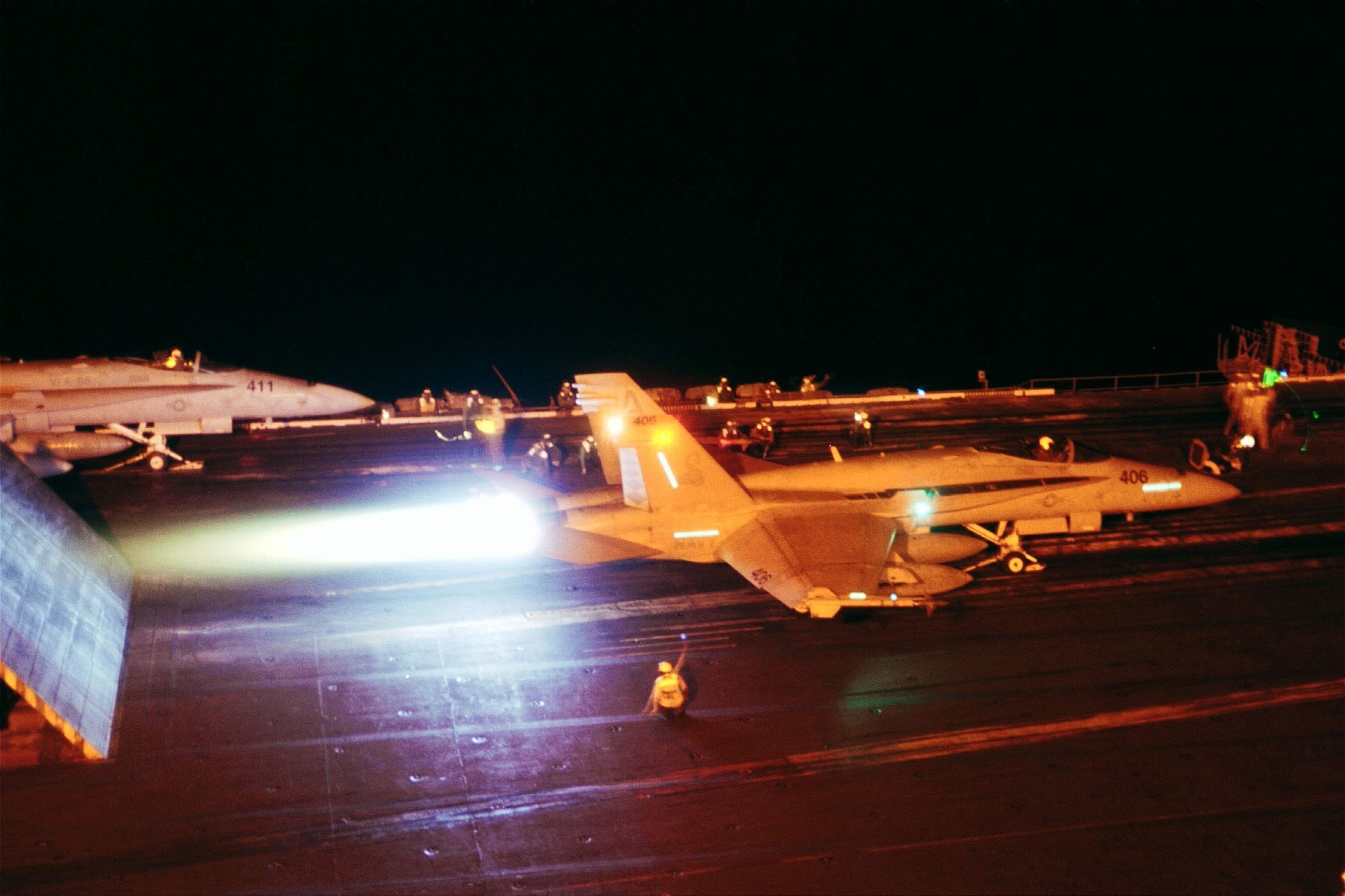 At sea aboard USS Theodore Roosevelt (CVN 71) Oct. 20, 2001 -- An F/A-18 “Hornet” from the "Sidewinders" of VFA-86 ignites its afterburners while preparing to be catapulted from the flight deck. USS Theodore Roosevelt is conducting missions in support of Operation Enduring Freedom. U.S. Navy Photo by Photographer’s Mate 2nd Class Jeremy Hall. (RELEASED)